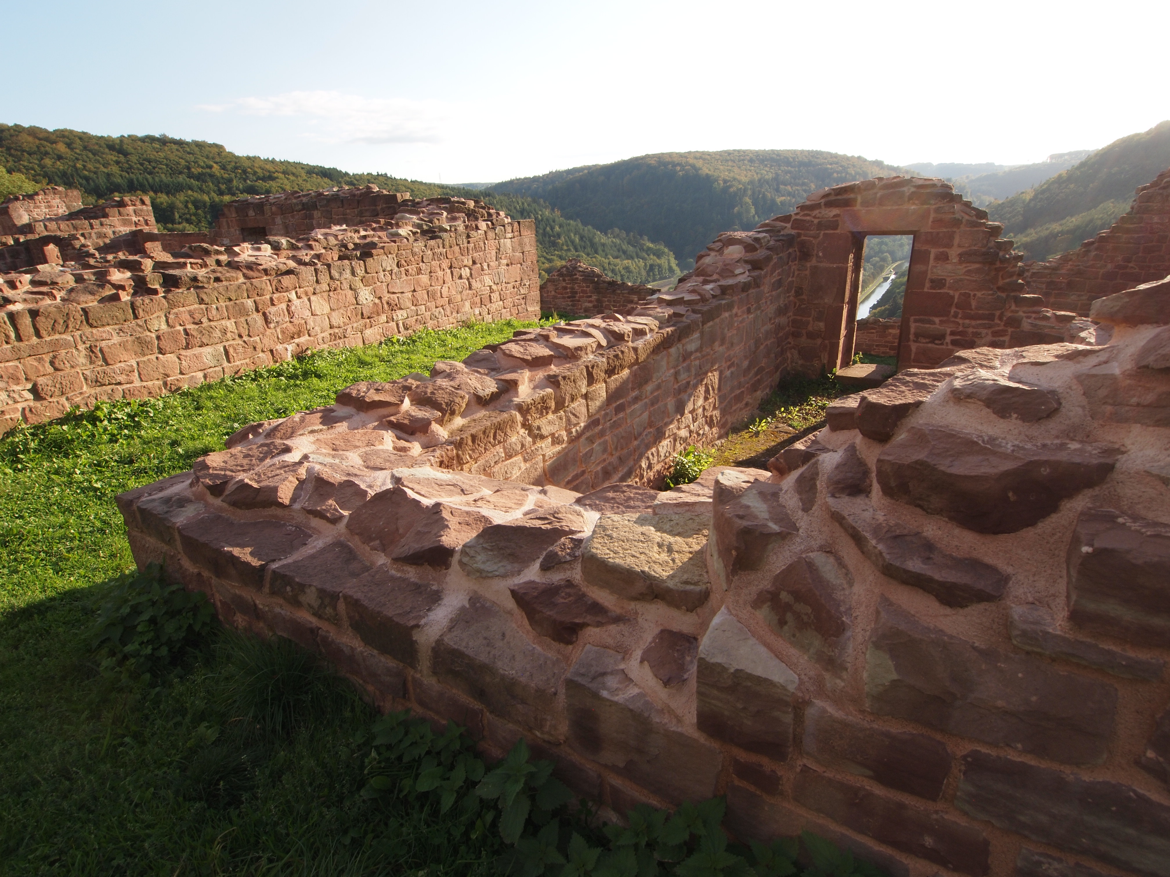 Castle ruins of Lutzelbourg, Moselle, France